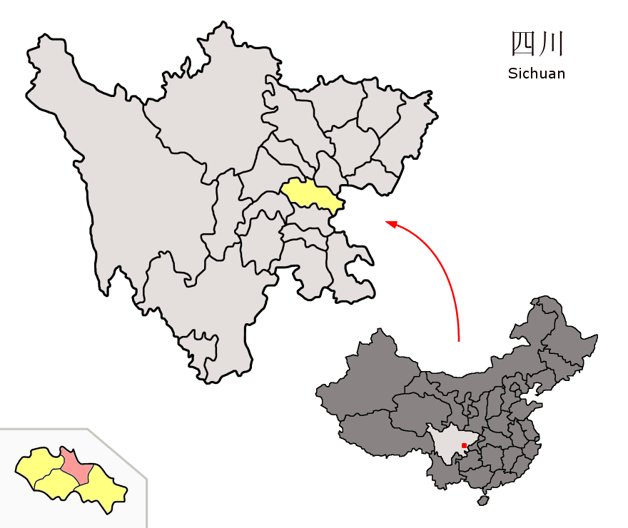 Location of Lezhi County (pink) and Ziyang Prefecture (yellow) within Sichuan province of China Map drawn in october 2007 using various sources, mainly : Sichuan province administrative regions GIS data: 1:1M, County level, 1990 Sichuan Counties map from